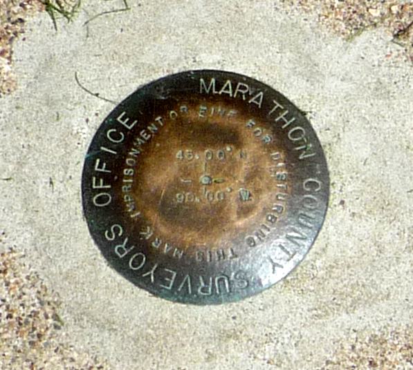 Marker for the Western Hemisphere's 45X90 point. This marker was intentionally misplaced, though signs clarifying the misdirection were only added after the increase in personal GPS devices. The actual location is approx. 1000 feet away (in a farm field). However the marker is conveniently located off of a public road. It is located outside Poniatowski, Wisconsin, USA.